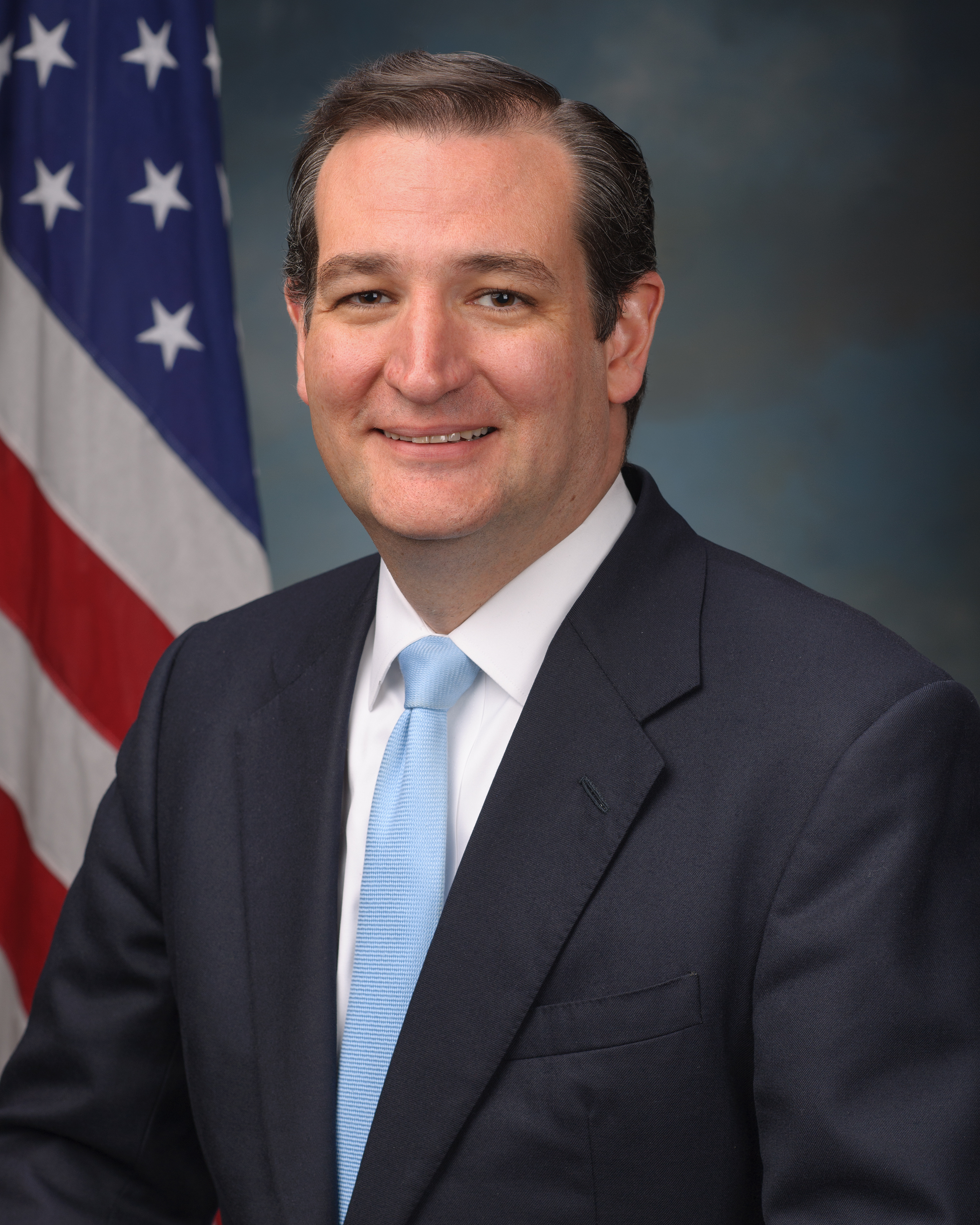 Official portrait of U.S. Senator Ted Cruz (R-TX).